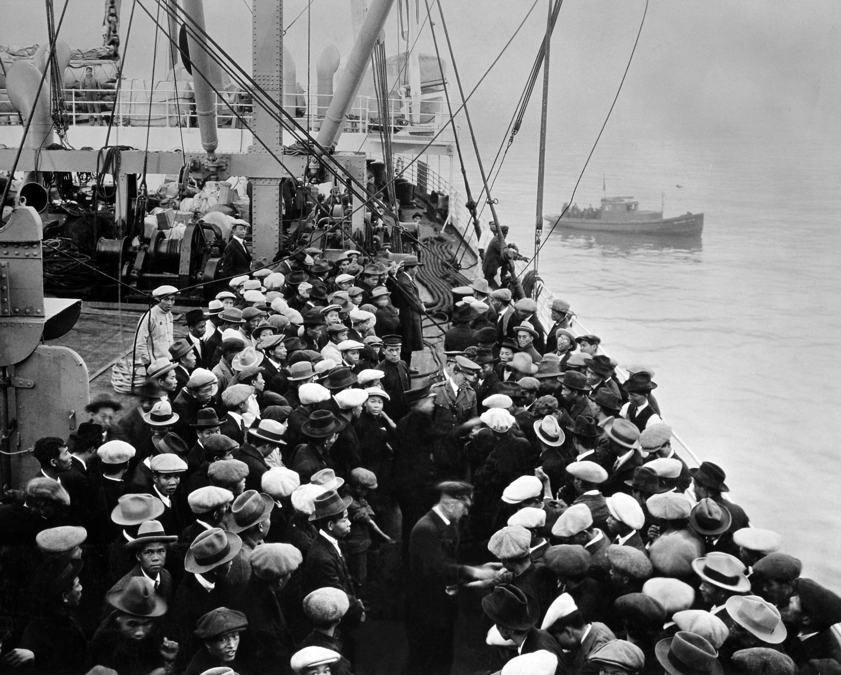 Public health workers checking immigrants arriving to the United States for signs of illness. The immigration law of 1891 made it mandatory that all immigrants coming into the United States undergo health inspection by Public Health Service physicians. The largest inspection center was on Ellis Island in New York Harbor. Credit: NIH